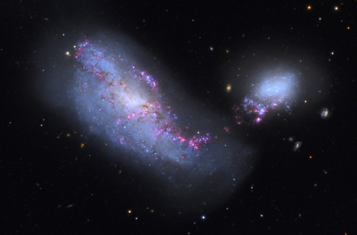 Deep exposure of NGC 4490 using the 0.8m Schulman Telescope at the Mount Lemmon SkyCenter Optics 32-inch Schulman Telescope (RC Optical Systems), Acquired remotely Camera SBIG STX 16803 CCD Camera Filters AstroDon Gen II Dates March - April 2013 Location Mount Lemmon SkyCenter Exposure LRGB = 7:2:2:2 hours Acquisition ACP Observatory Control Software (DC-3 Dreams),TheSky (Software Bisque), Maxim DL/CCD (Cyanogen), FlatMan XL (Alnitak) Processing CCDStack (CCDWare), Photoshop CS5 (Adobe), PixInsight Guest Astronomers Participants of the May 2013 CCD Image Processing Workshop